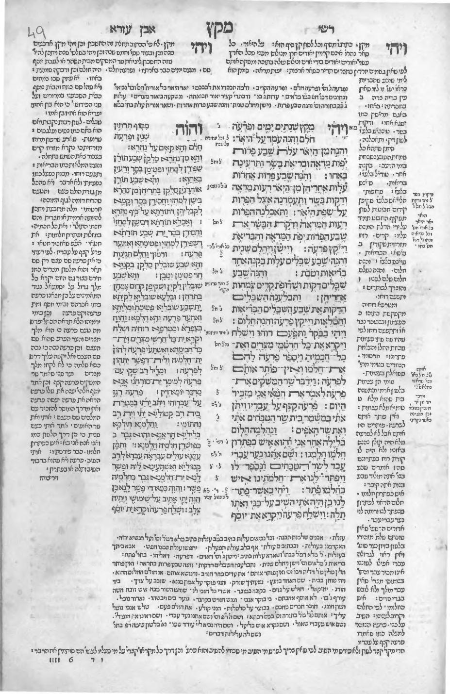 Ein Seite des Werkes von Jacob Ben Chajim Ibn Adonijah aus 1524.